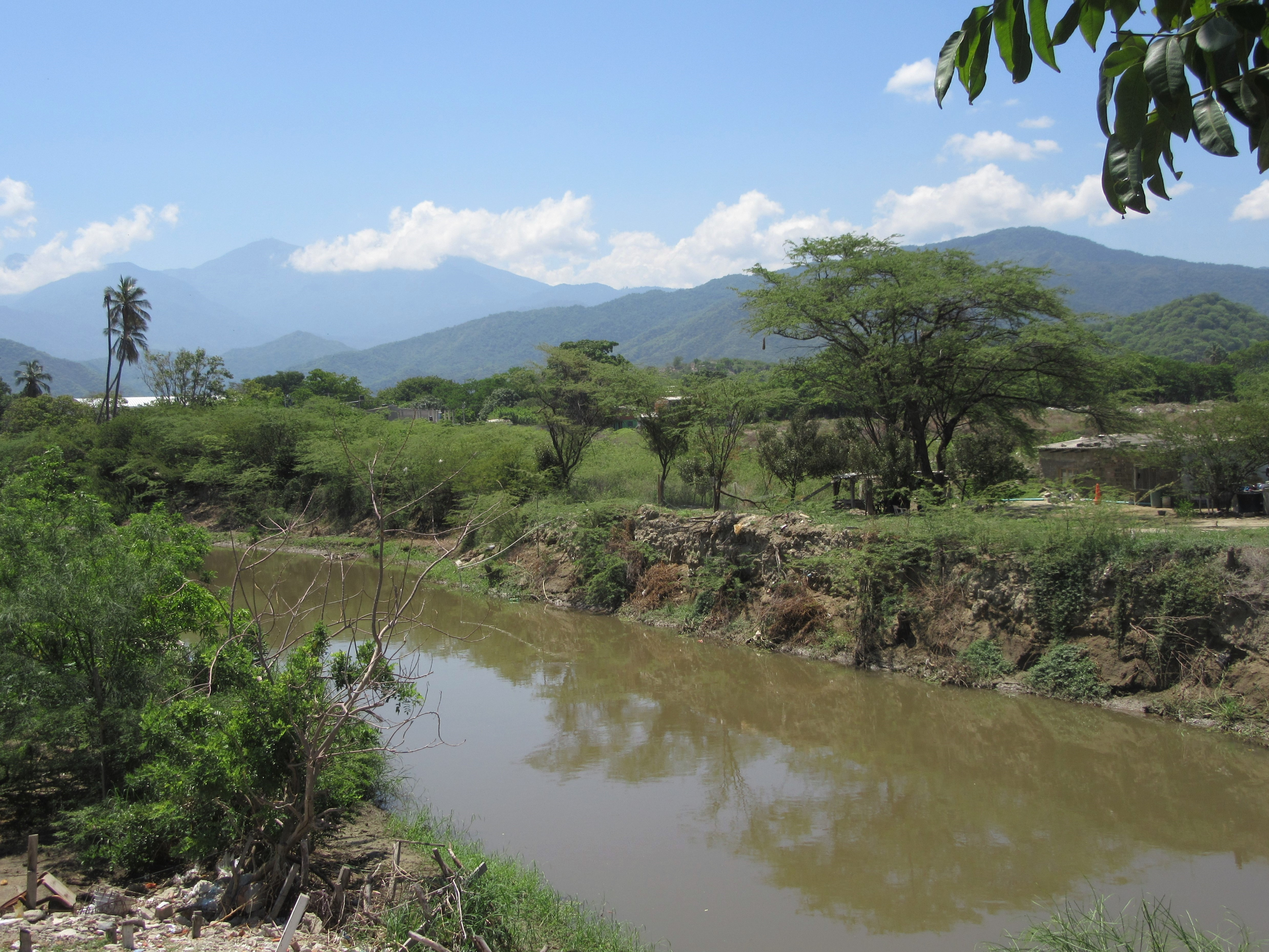 El Rodadero